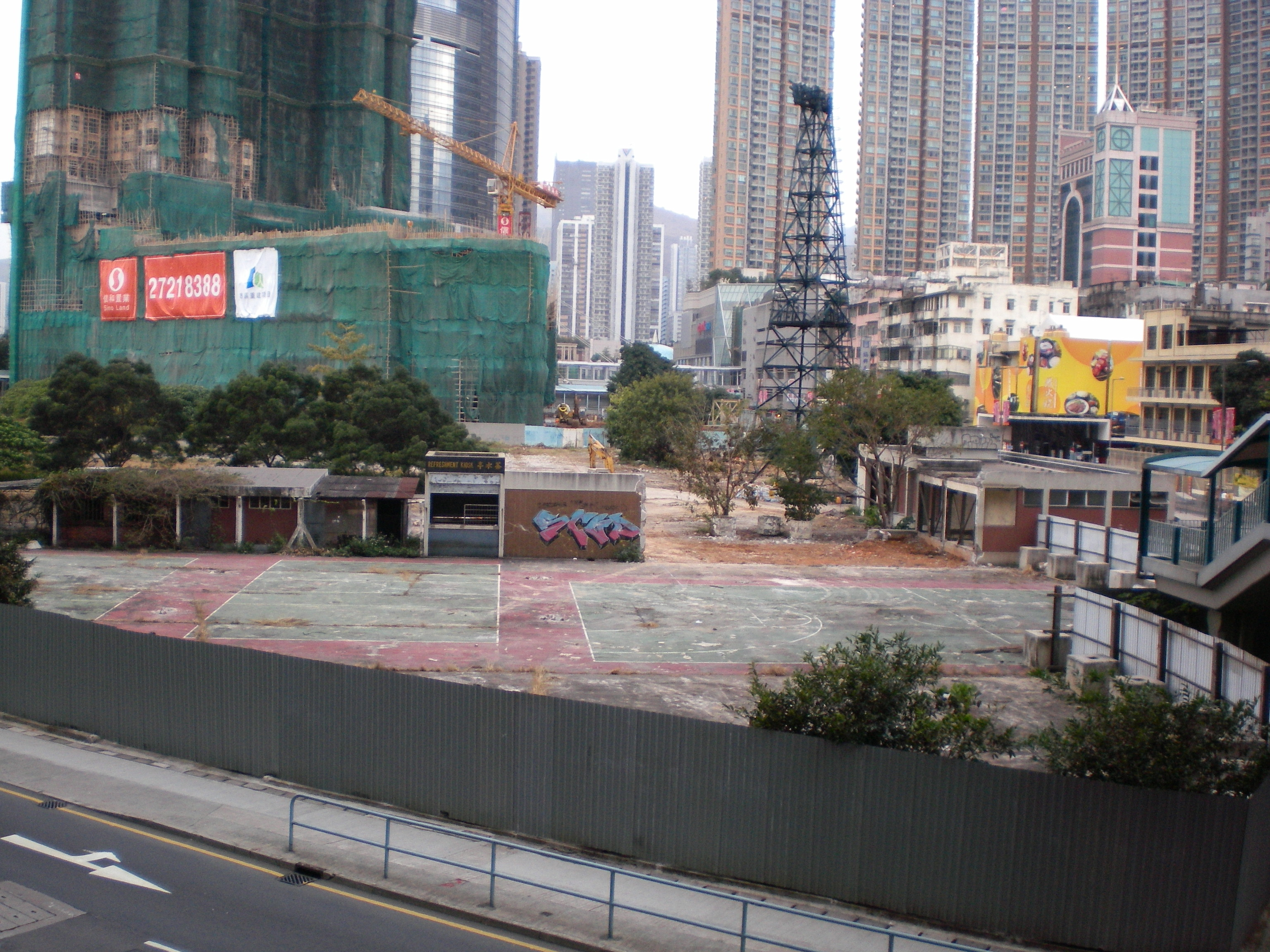 The full view of old Tsuen Wan Sports Ground Locker Room in 2008.